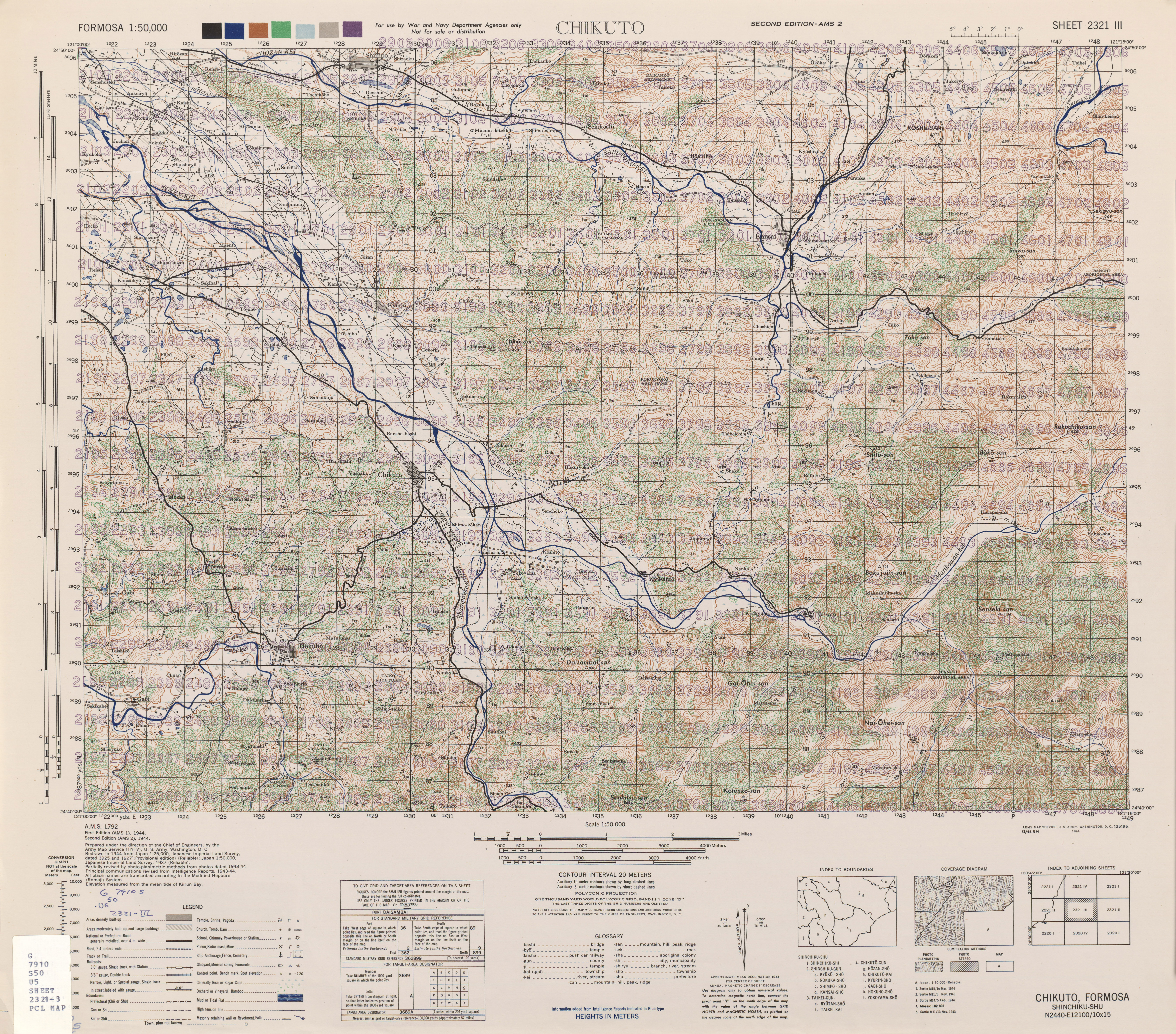 Map from Formosa (Taiwan) 1:50,000 AMS Series L792